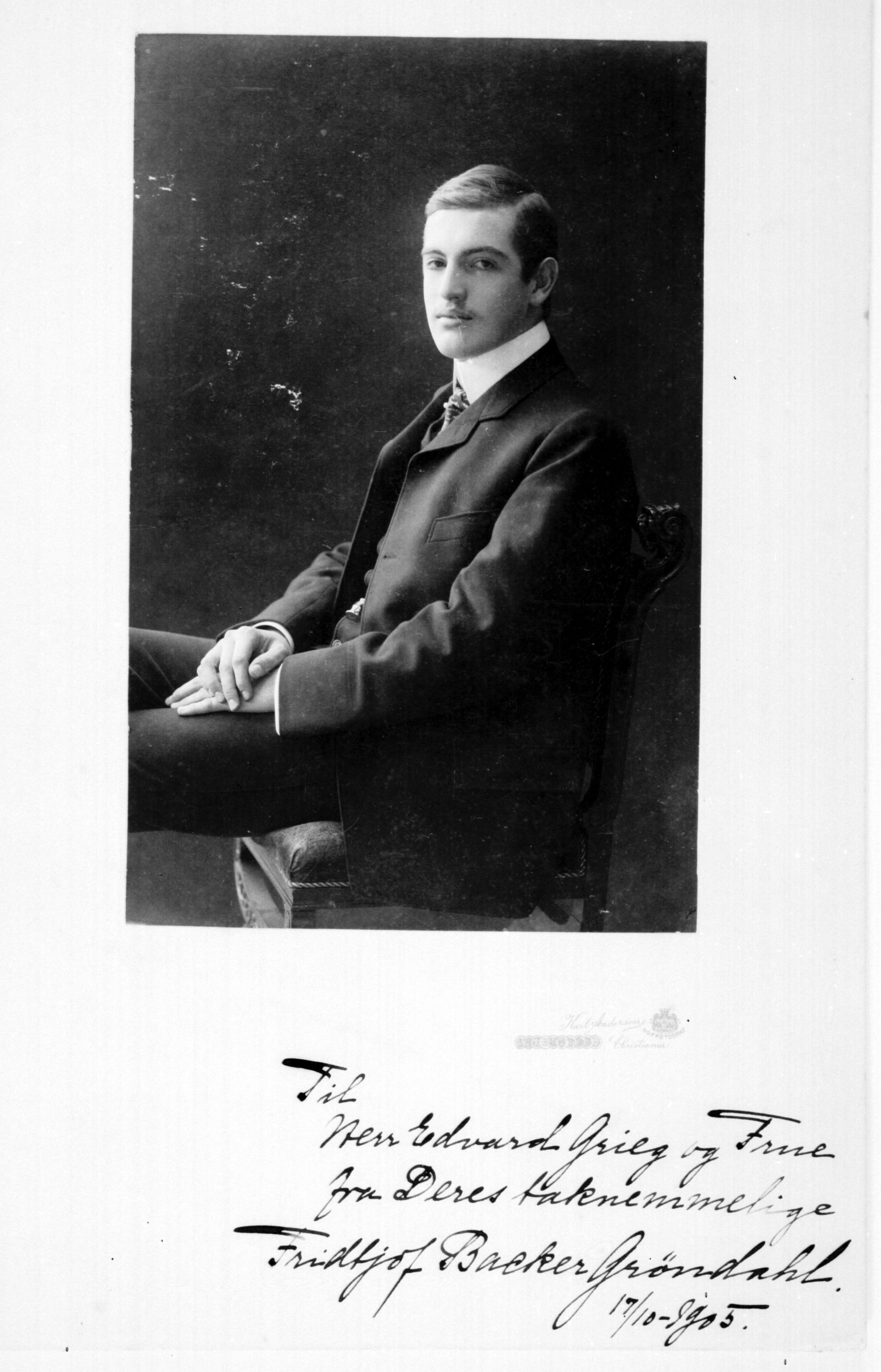 Artist: Karl Anderson, Hoffotograf (royal photographer) Date/place:17/10 1905, Christiania Subject: Fridtjof Backer Gröndahl Medium: photographic positive, B&W Notes: Under the photo is written: "Til Herr Edvard Grieg og Frue fra Deres taknemmelige Fridtjof Backer Gröndahl 17/10-1905" (to Mr. Edvard Grieg and wife from your grateful Fridtjof Backer Grönfdahl 17/10-1905 Persistent URL: Original belongs to the Edvard Grieg Archives at Bergen Public Library Original reference: EGM0018